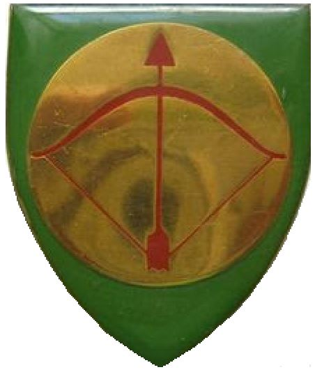 SADF era Heilbron Commando emblem